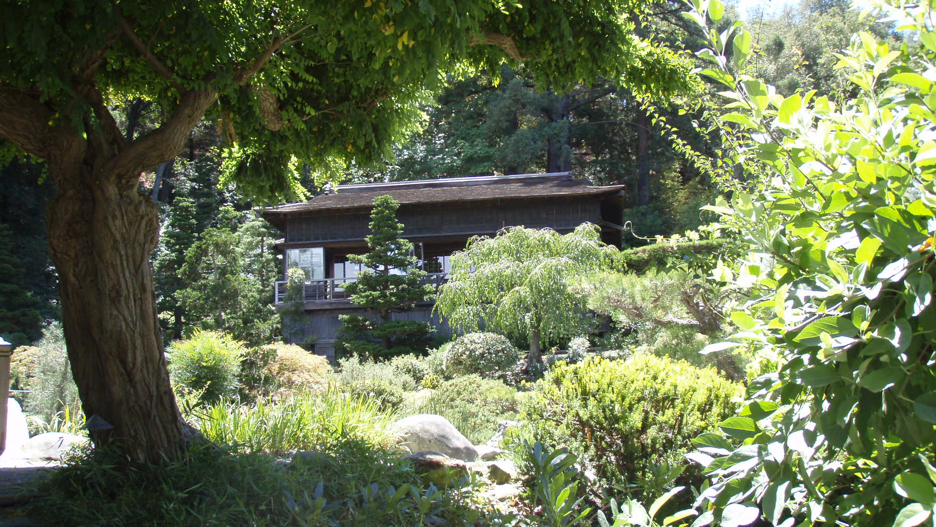 One of the buildings at Hakone Gardens in Saratoga, California